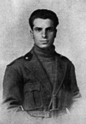 Argo Secondari in divisa da Ardito